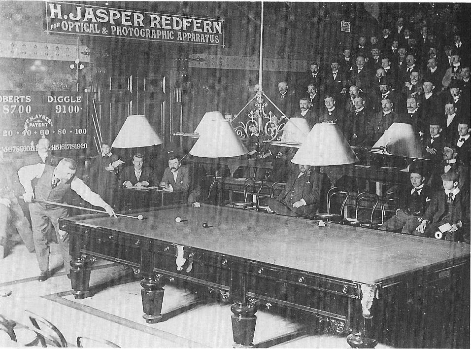 John Roberts Jr playing Edward Diggle in an English billiards match at Central Hall on Norfolk Street in Sheffield.